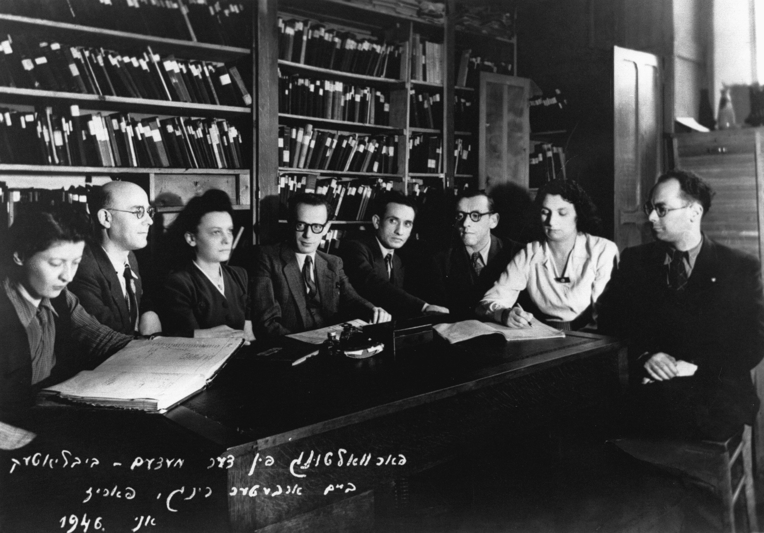 The post-war administration of the newly founded Medem Library (1946)